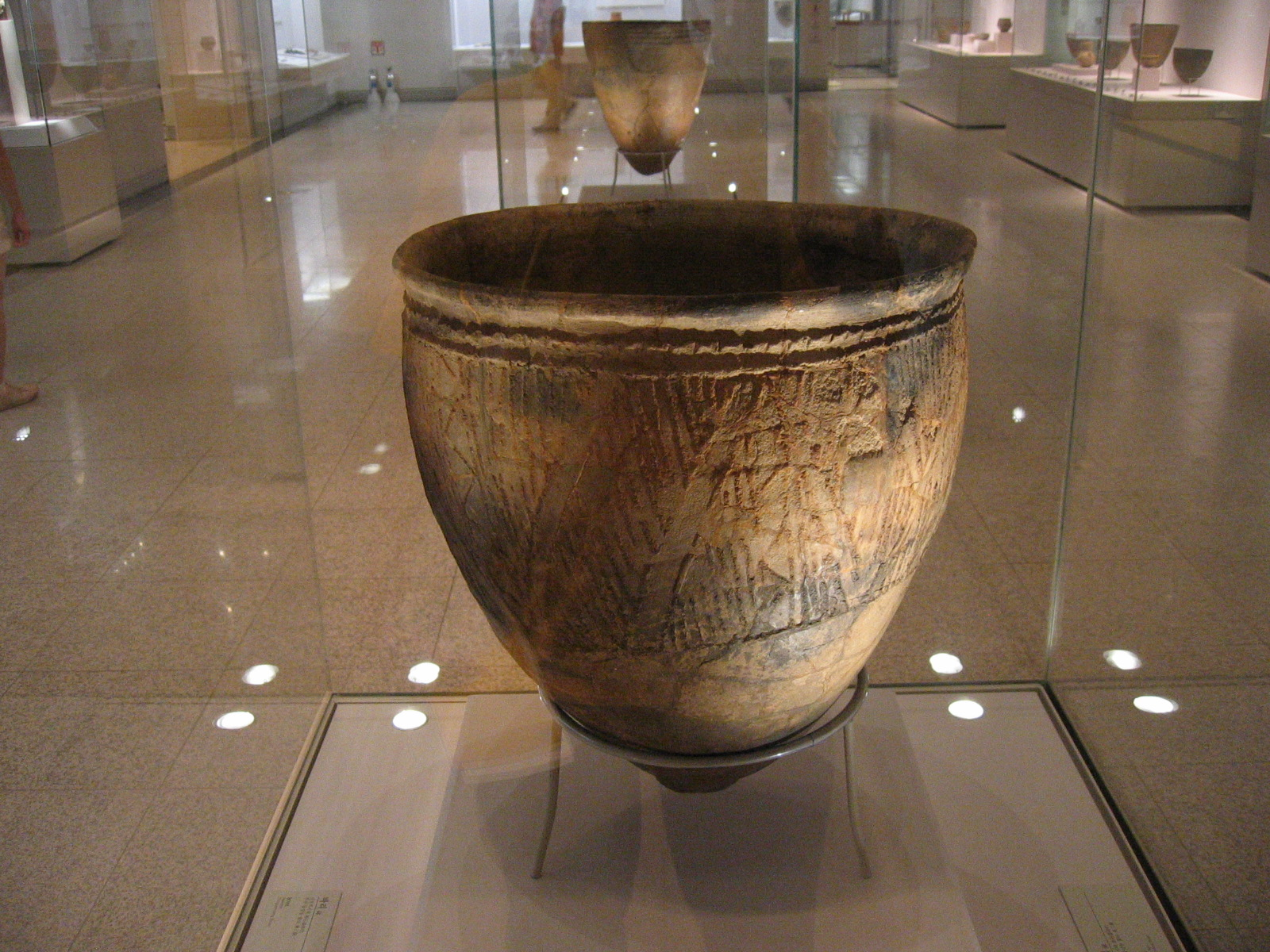 Korean neolithic pot, found in Busan. Taken from the National Museum of Korea.